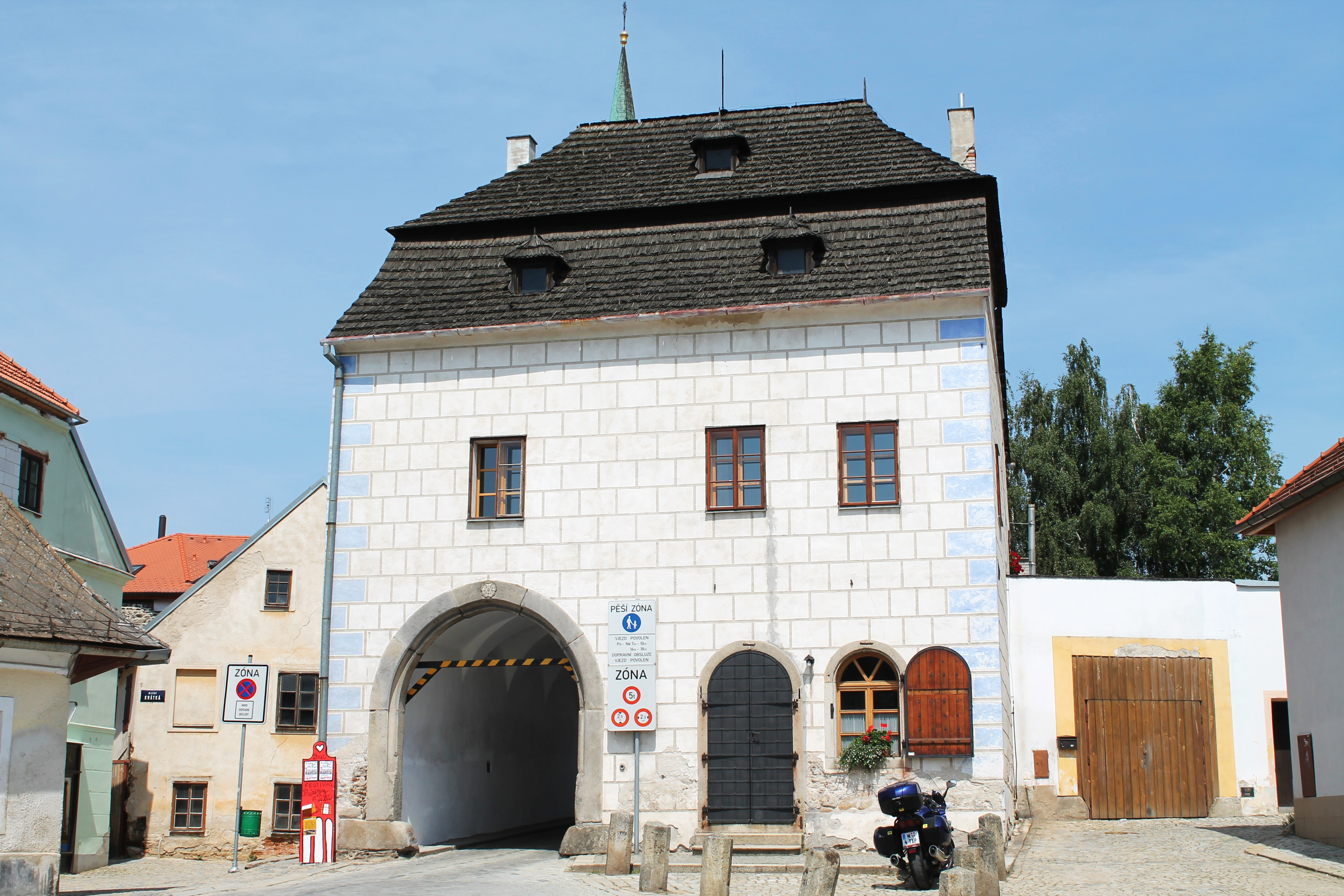 Town gate, Telč, Jihlava District, Czech Republic - OpenStreetMap (Info)